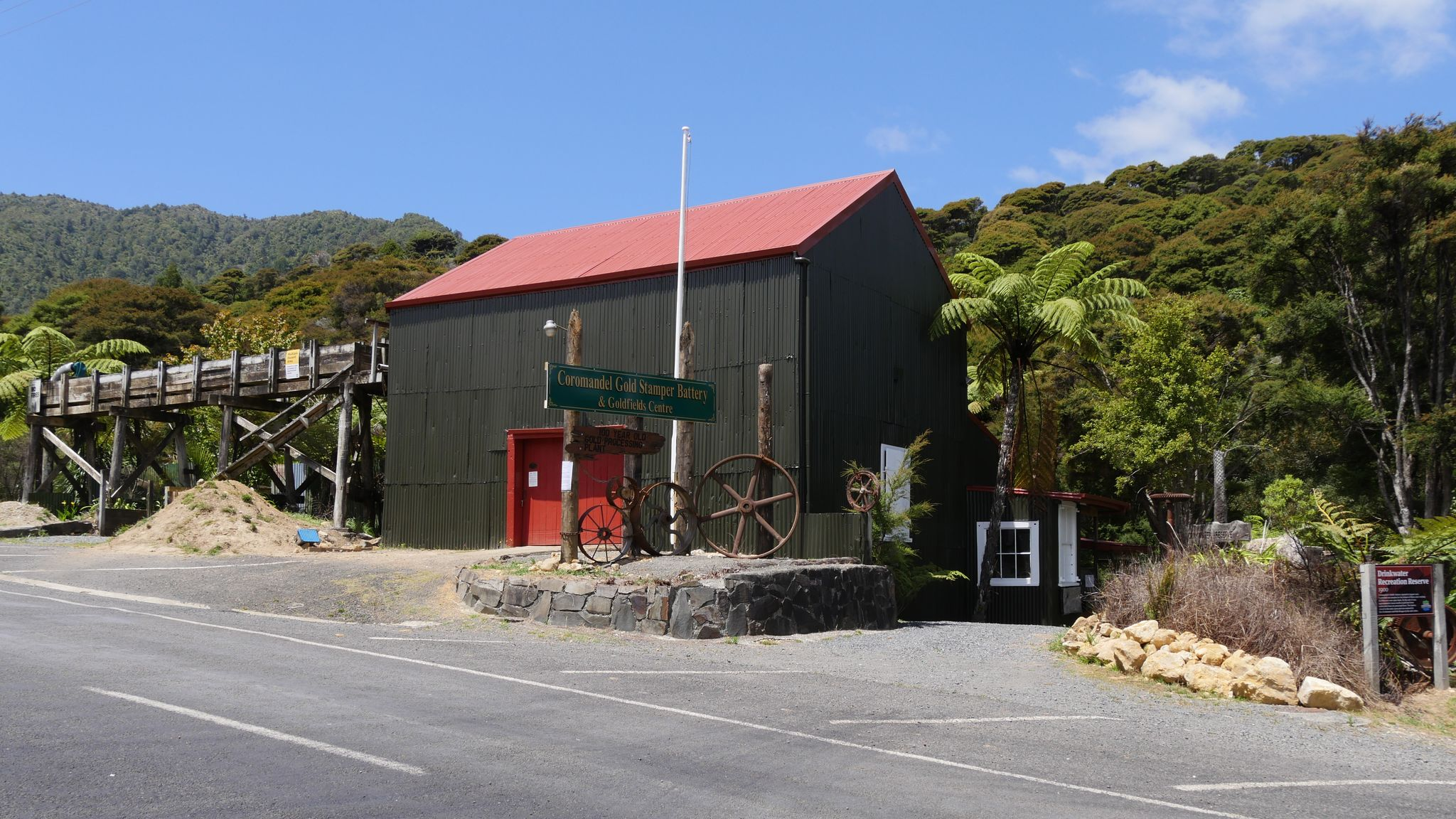 Gold Stamper Battery, Coromandel, Thames-Coromandel District, Waikato Region, North Island, New Zealand